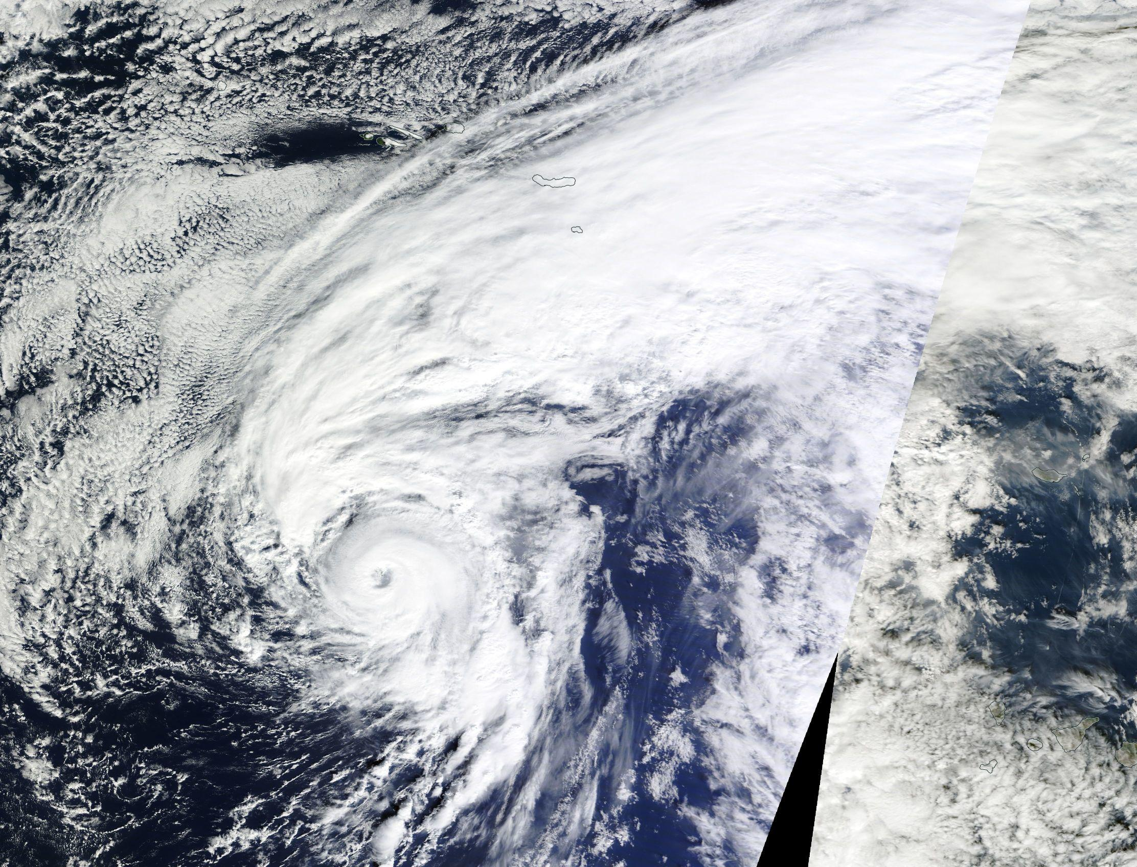 Hurricane Alex on Jan. 14 at 15:30 UTC (10:30 a.m. EST) in the central Atlantic Ocean. The image revealed an eye and showed bands of thunderstorms spiraling into the low level center of circulation